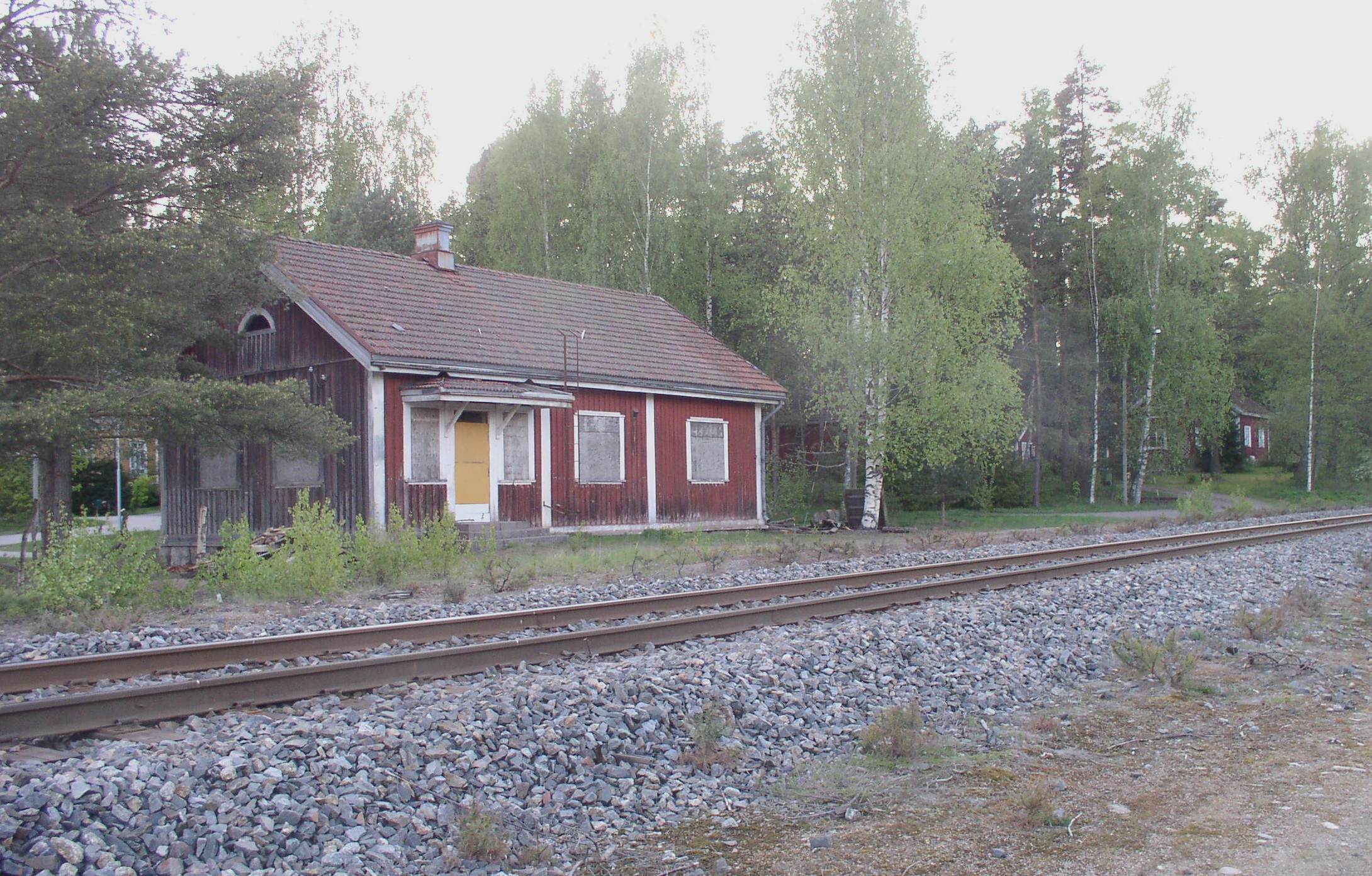 Masku railway station (not in use any more) in Masku, Finland.